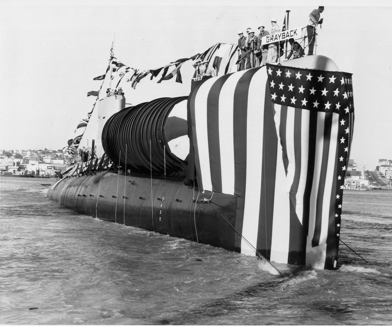 (SSG-574) is waterborne after her launching at Mare Island Naval Shipyard on 2 July 1957.